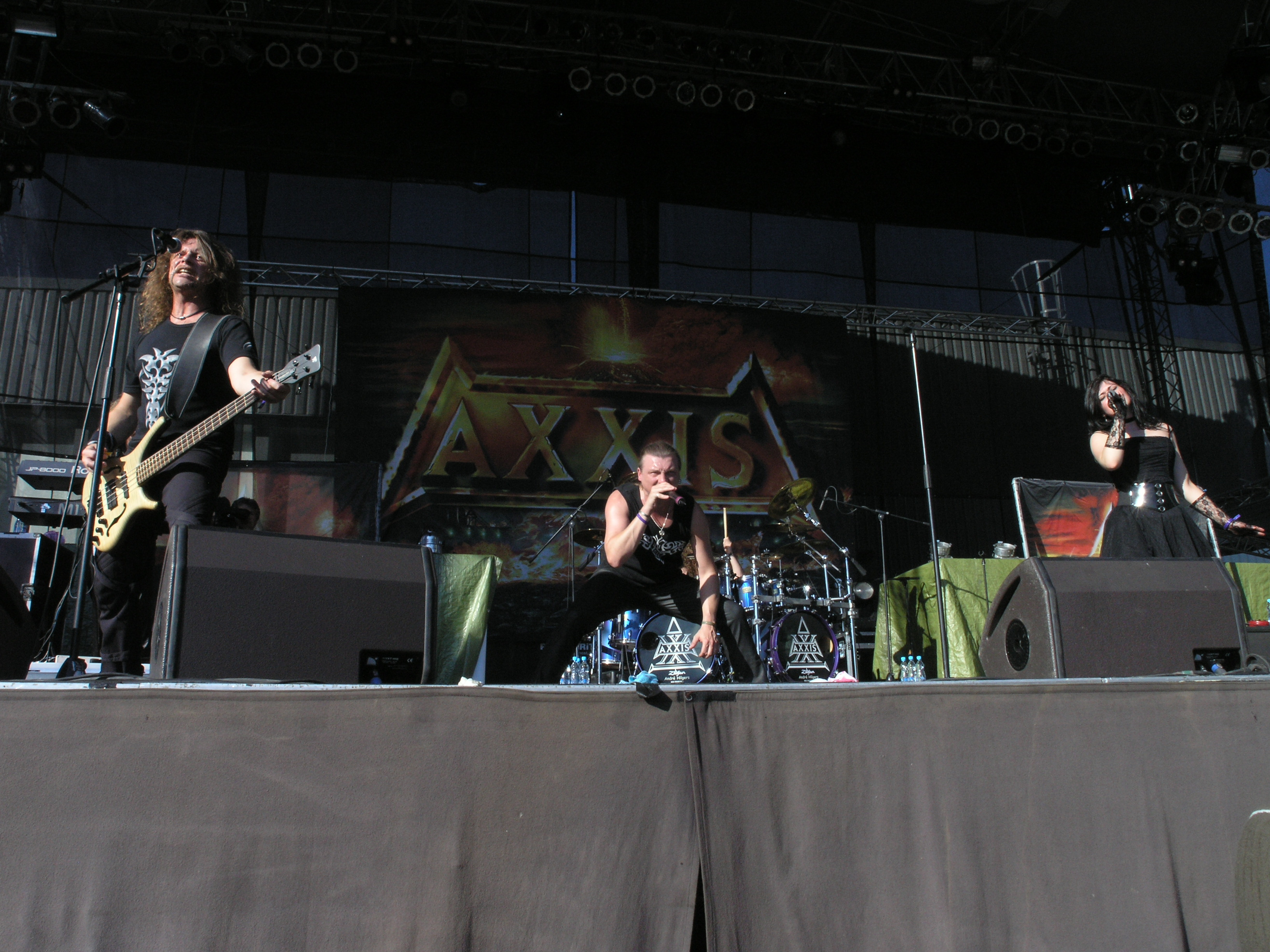 Music band Axxis during Masters of Rock 2007 festival